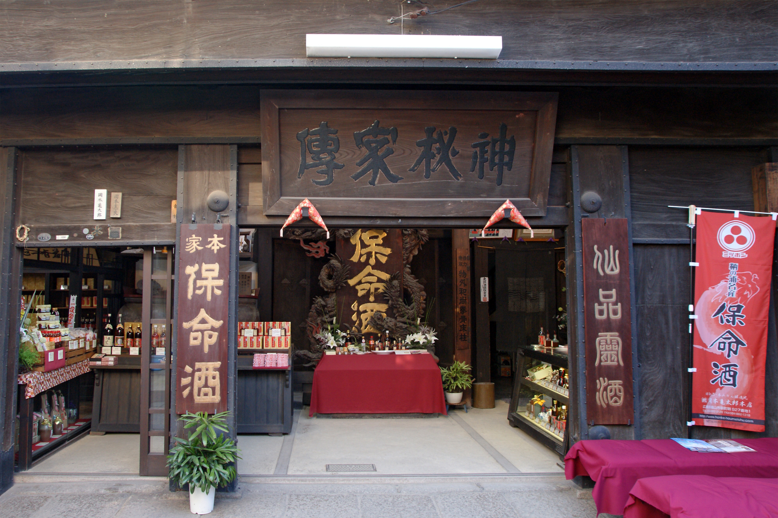 Tomonoura, Fukuyama, Hiroshima prefecture, Japan